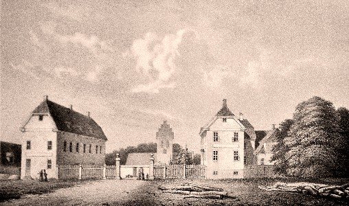 Jomfruens Egede at Faxe, Denmark